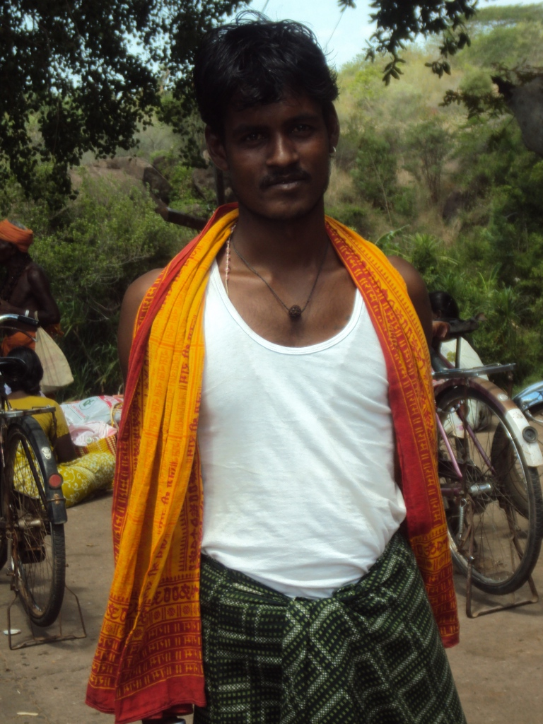 Pettai Narikorava youth, doing tattoos near Papanasam temple.